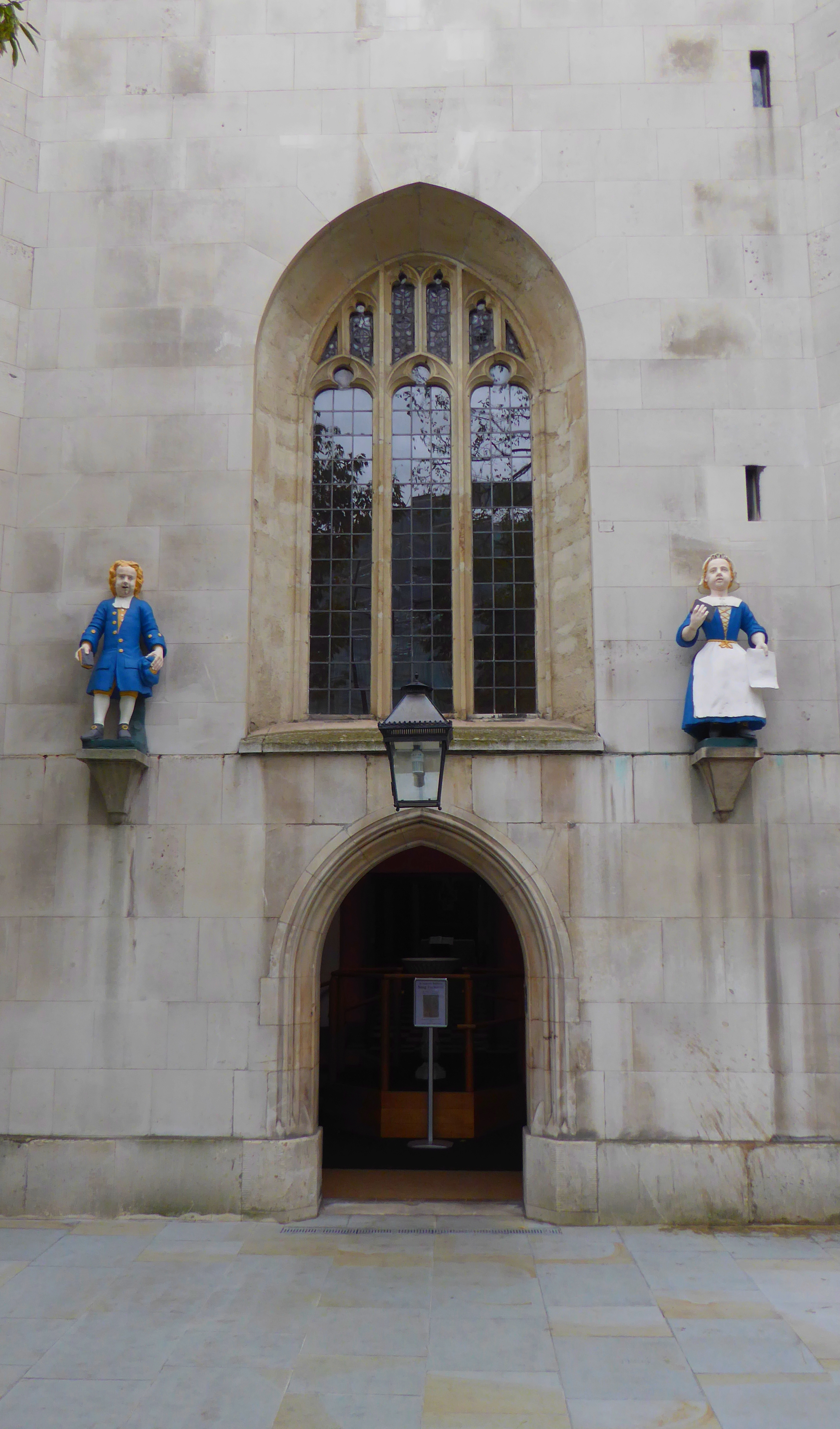 The Church of St Andrew in Holborn, City of London.